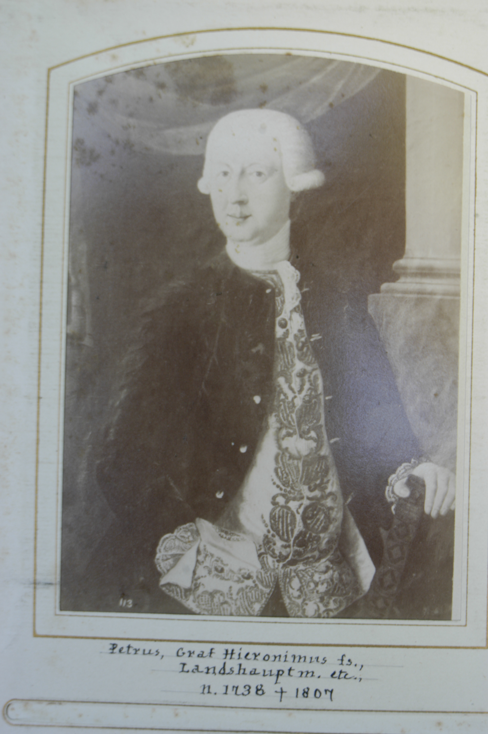 Photo (by me, R. de Salis, Rodolph (talk) 23:47, 13 July 2014 (UTC)) of a pre-1884 photo of a 1760/70s portrait of Peter De Salis, Esquire, aka 3rd Count de Salis, (1738-1807), in Huguenot waistcoat.